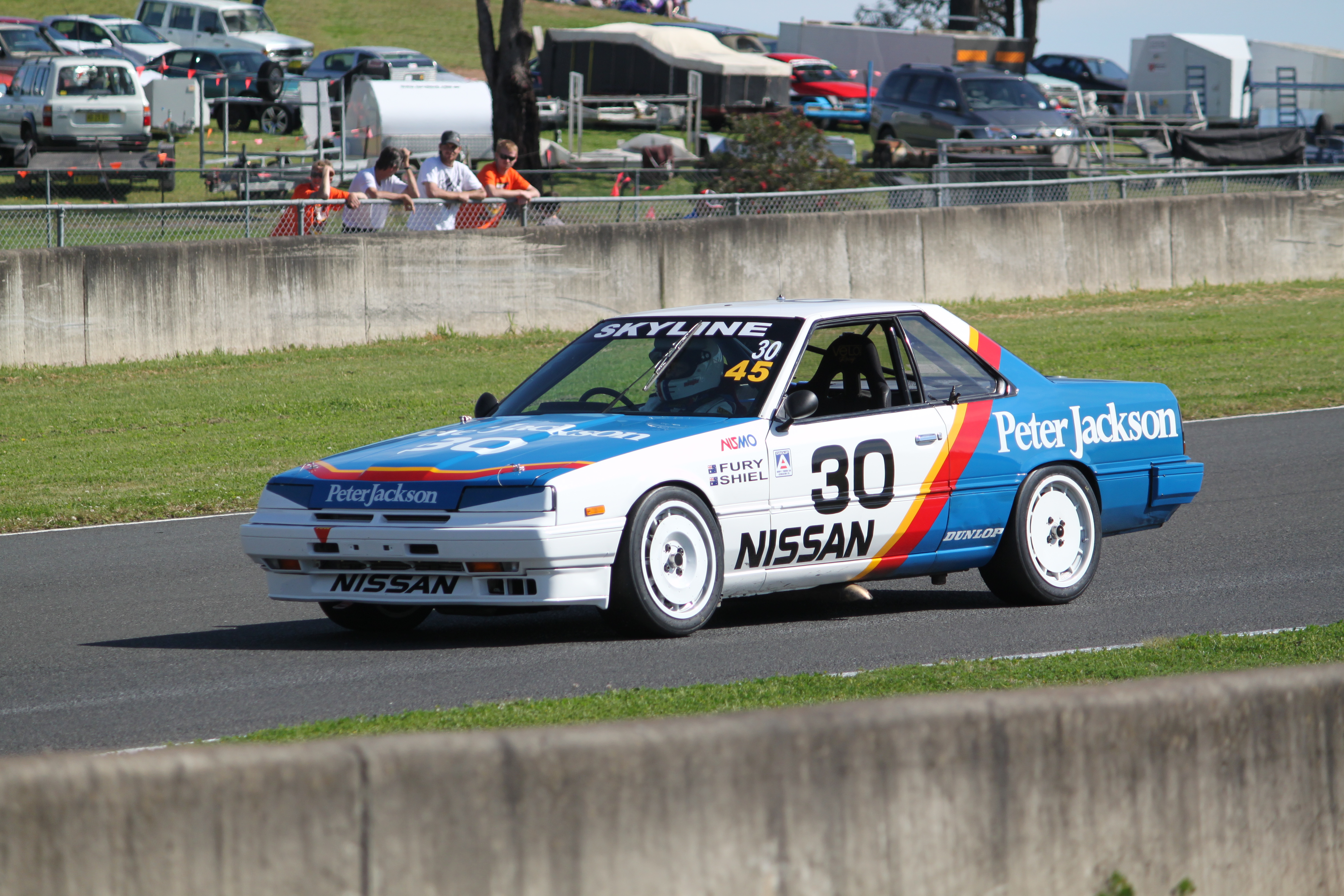 Nissan Skyline RS Turbo DR30 - George Fury / Tery Shiel